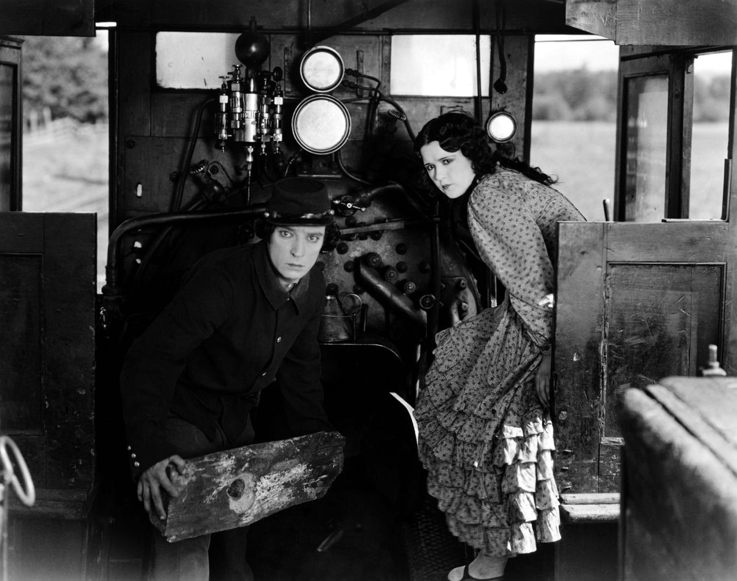 Buster Keaton and Marion Mack in The General (1926) - cropped screenshot